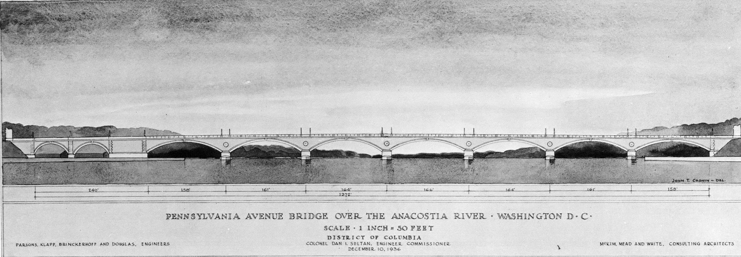 Architectural drawings prepared by the United States Army Corps of Engineers for the John Philip Sousa Bridge over the Anacostia River in Washington, D.C., in the United States. The six-lane, reinforced concrete and steel bridge sits on masonry piers. This drawing was made on December 10, 1936, and was the plan approved by the United States Commission of Fine Arts for the Sousa Bridge, which replaced an 1890 iron truss bridge located on the same spot. Construction began on Sousa Bridge in August 1938. The south span opened on December 9, 1939. It was completed on January 15, 1941.